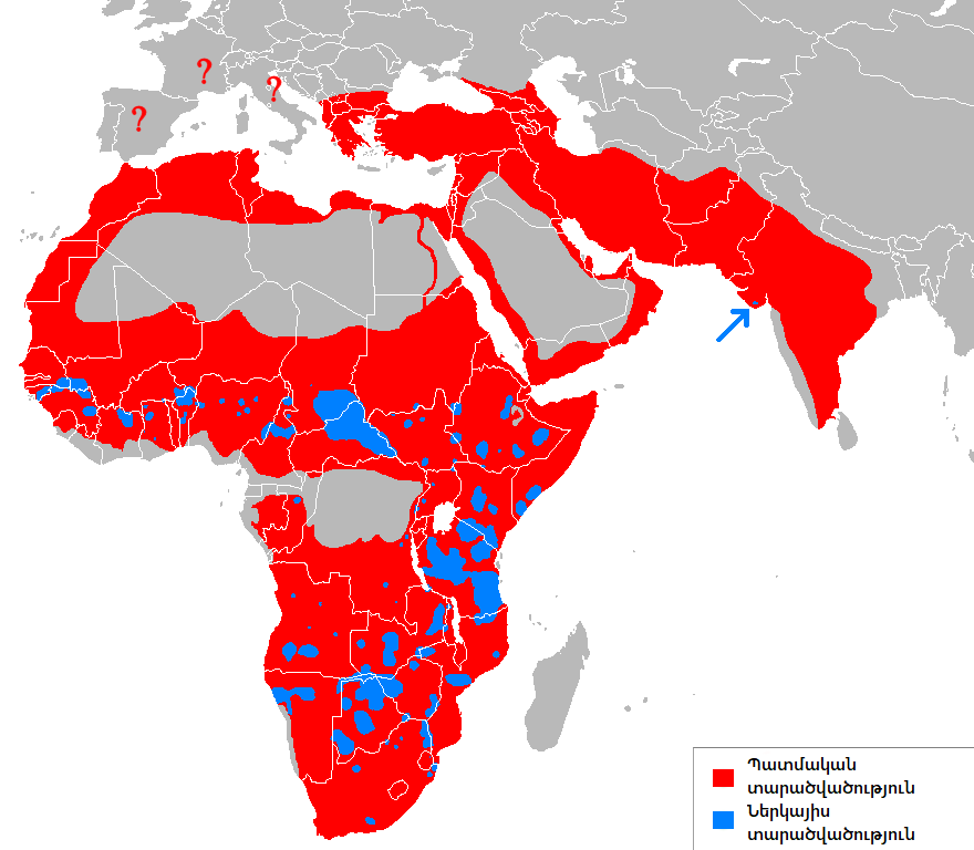 Distribution of lions, diagram in Armenian